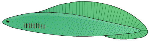 Reconstruction of Haikouichthys ercaicunensis. Based on actual fossil evidence.